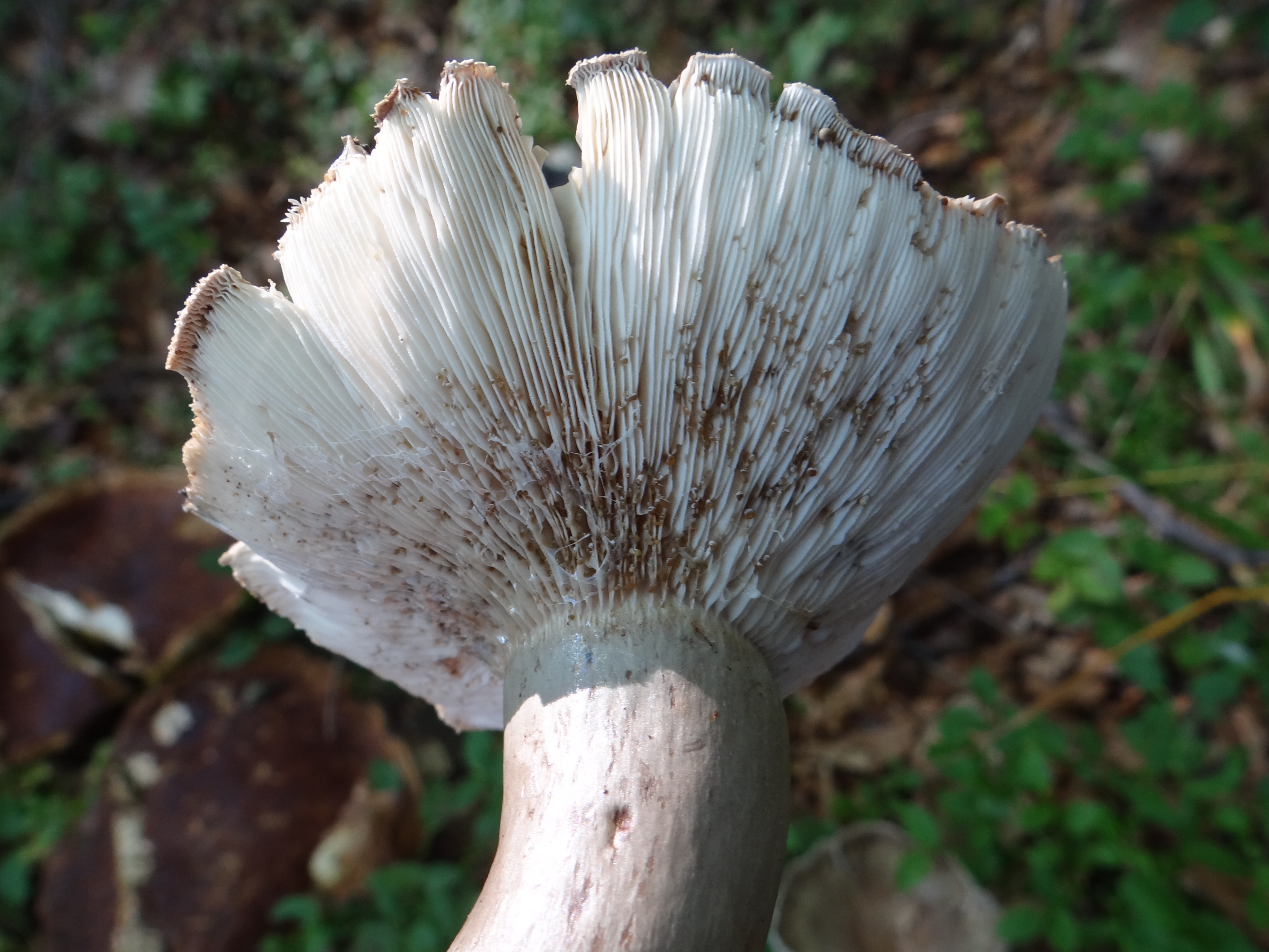 Lactarius blennius (location: Poland)